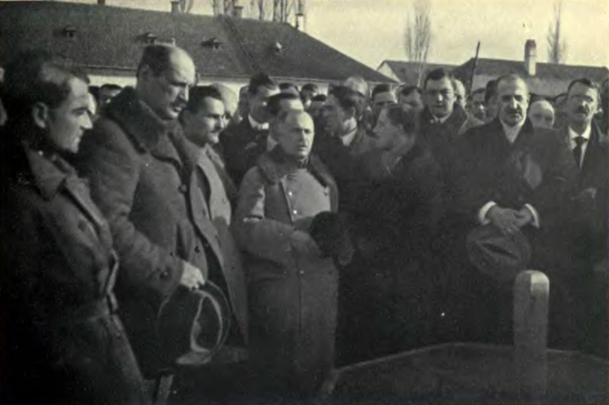 Mihály Károlyi, Hungarian President of the Popular Republic, distributing his lands among the peasants.